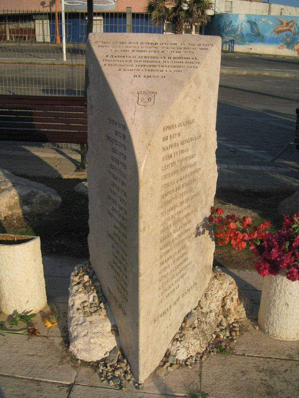 Memorial for the victims of the Dolphinarium Massacre.